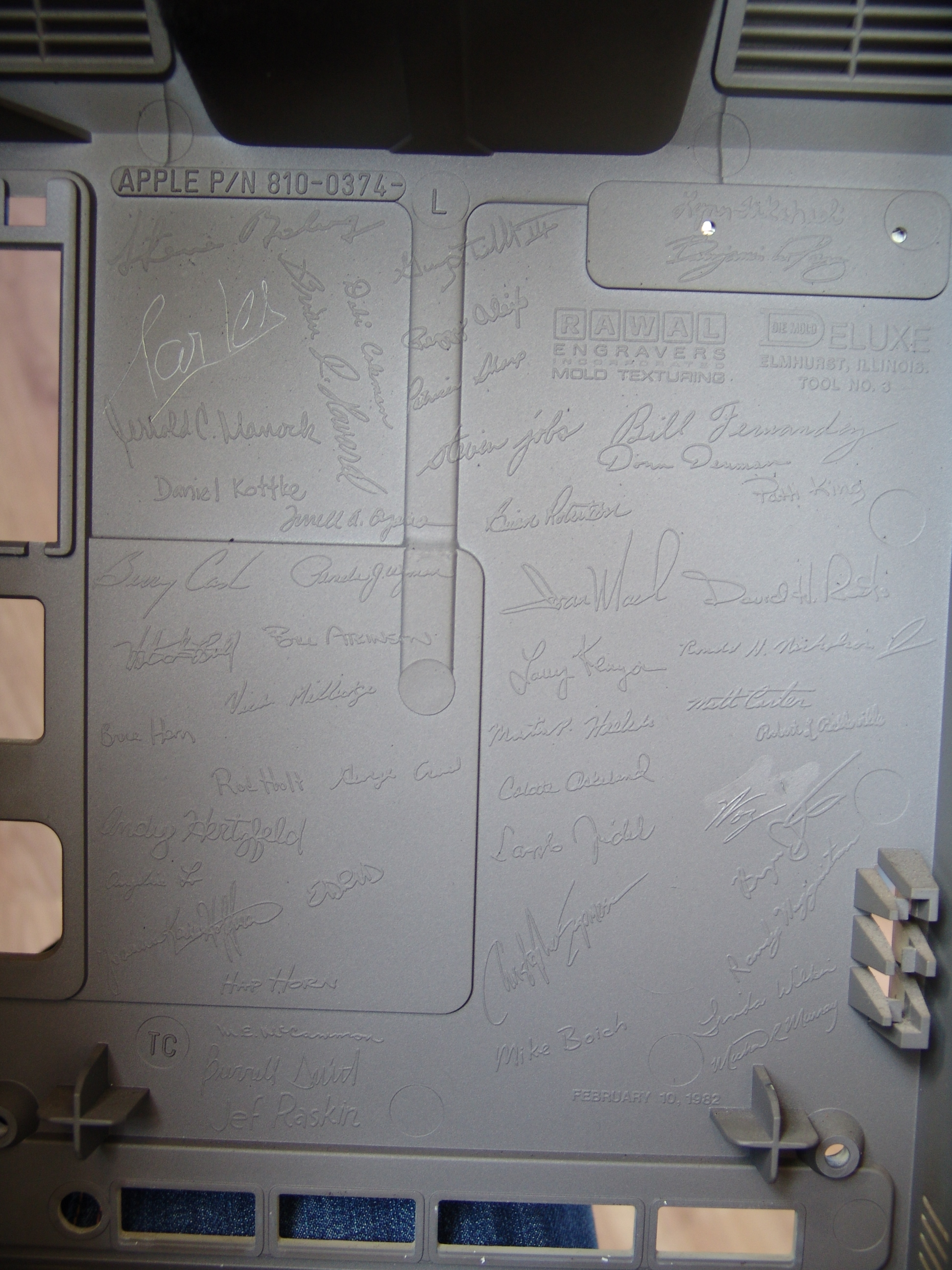 Signatures inside the Macintosh cover